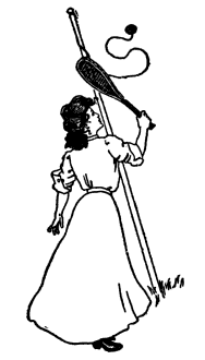 A round of tether tennis